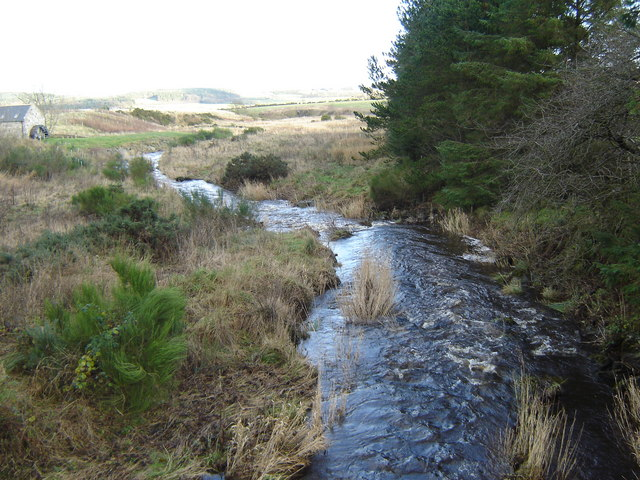 Crynoch Burn This picture, taken from the bridge at Invercrynoch, shows the Crynoch Burn and the old mill wheel of the Crynoch Mill in the top left.